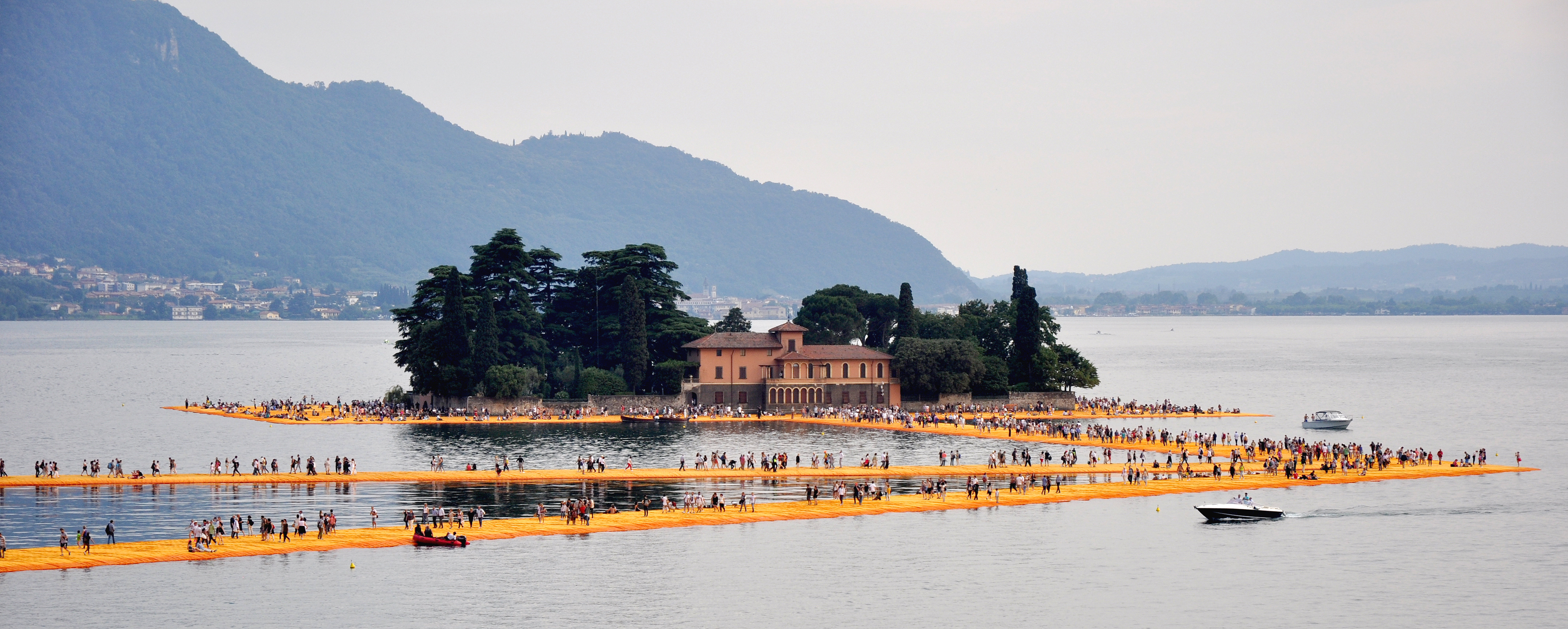 Christo's "The Floating Piers", lake of Iseo, Italy 2016